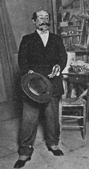 Spanish Actor José Moncayo